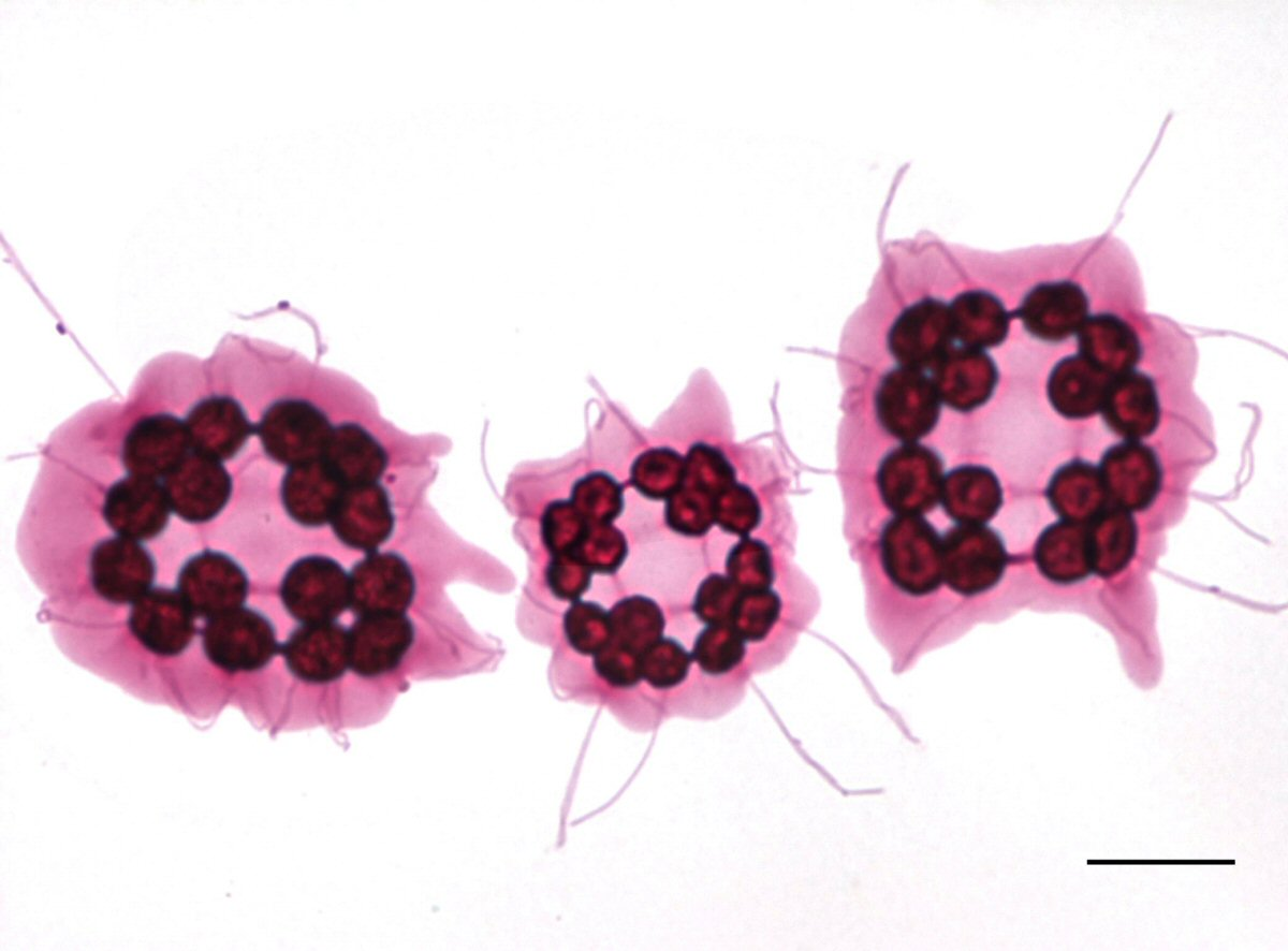 Photomicrograph of multiple Platydorina. Scale=0.02mm.